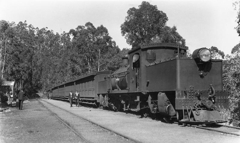 A WAGR Ms class Garratt locomotive, no. 428, with a passenger train at Mundaring Weir.The information provided here about the date of the image is obtained from Gunzburg, Adrian (1984). A History of WAGR Steam Locomotives. Perth: Australian Railway Historical Society (Western Australian Division), p. 92. ISBN 0959969039